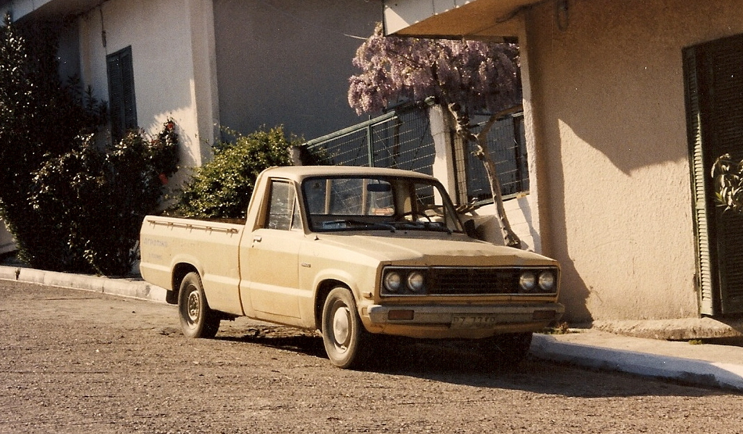 A picture of a Grezda (Mazda licence) truck I took in a village near Pyrgos in 1990. It can be